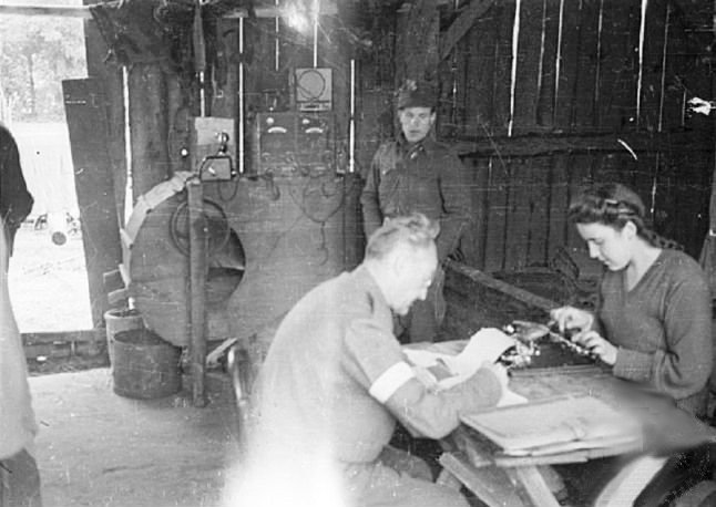 Kampinos Regiment during Warsaw Uprising: Commander headquarters of Kampinos Regiment. From the left: 1) cpt. "Krzemień", 2) Stanisław Pilarski (in the back), 3) courier Jadwiga Bałabuszko—Sławińska "Hanka". Radio equipment is visible by the wall.